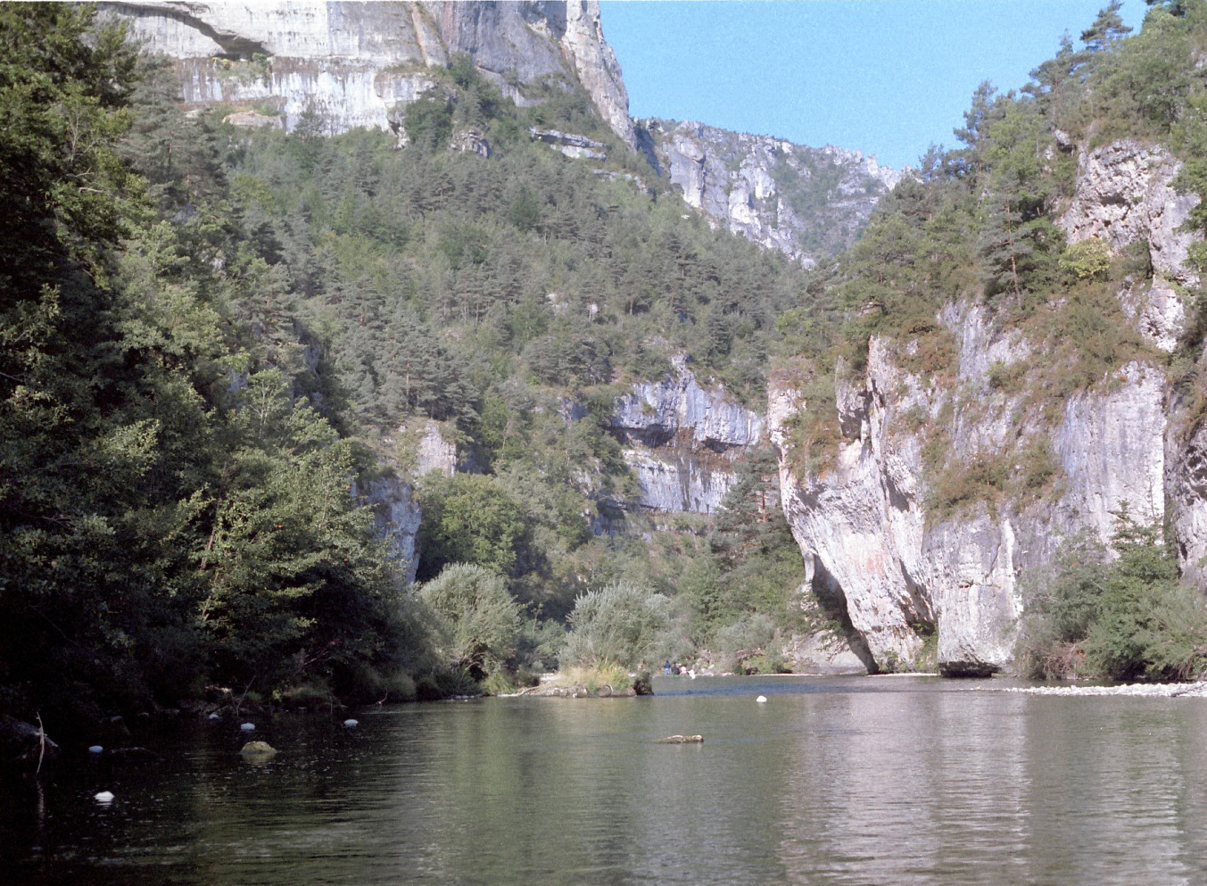 I took this picture myself in September, 1985, using a Canon F-1, and later scanned it into digital form from a color negative. It shows part of the Gorges du Tarn as seen from one of the many boats that take tourists for a ride down the river.